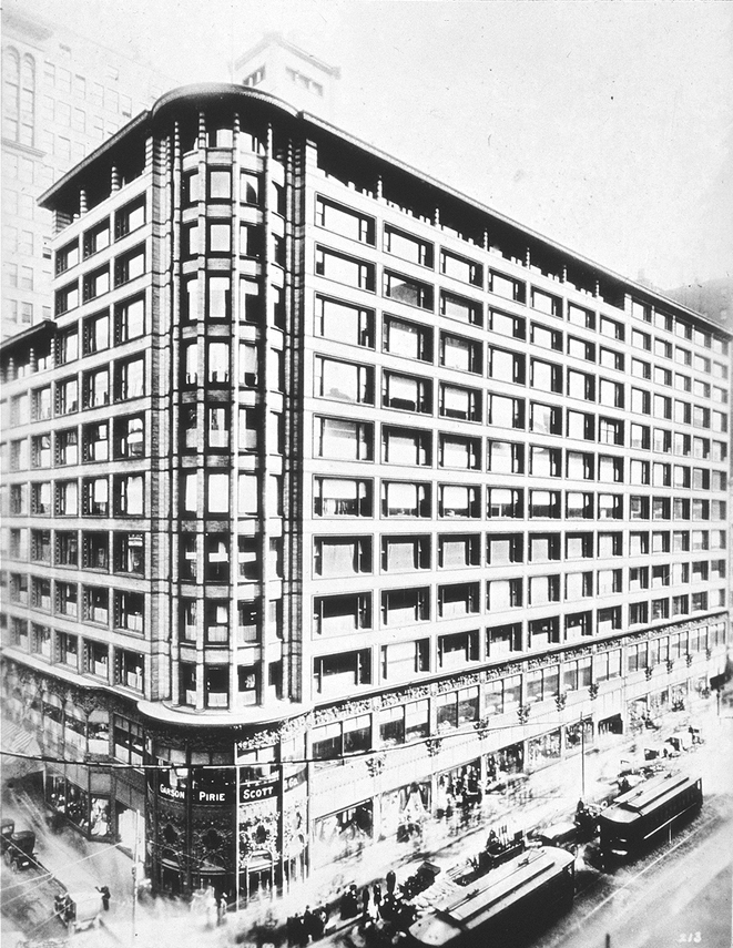 Archival photograph of the Carson Pirie Scott building, Chicago, Illinois. Louis Sullivan, architect.